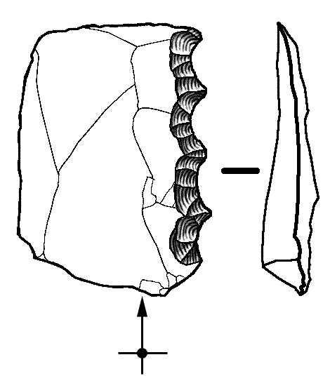 Denticulated retouch